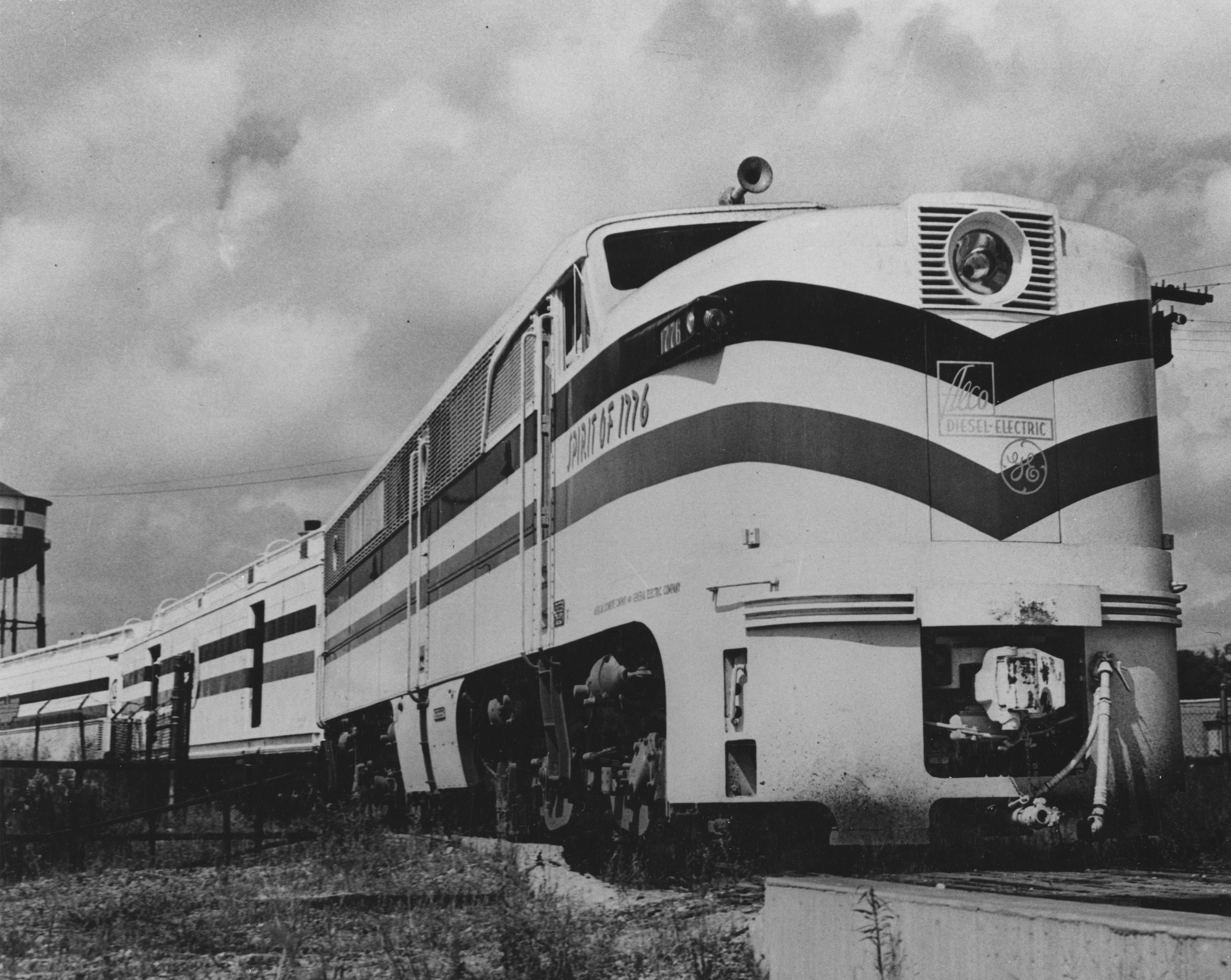 Original Caption: Photograph of Freedom Train U.S. National Archives’ Local Identifier: 64-NA-1-20 From: Historic Photograph File of National Archives Events and Personnel, 1935 - 1975 Created By: General Services Administration. National Archives and Records Service. Office of Educational Programs. Education Division. ?-4/1/1985 Production Date: 11/23/1950 Persistent URL: Repository: National Archives at College Park - Still Pictures (RD-DC-S) For information about ordering reproductions of photographs held by the Still Picture Unit, visit: Reproductions may be ordered via an independent vendor. NARA maintains a list of vendors at